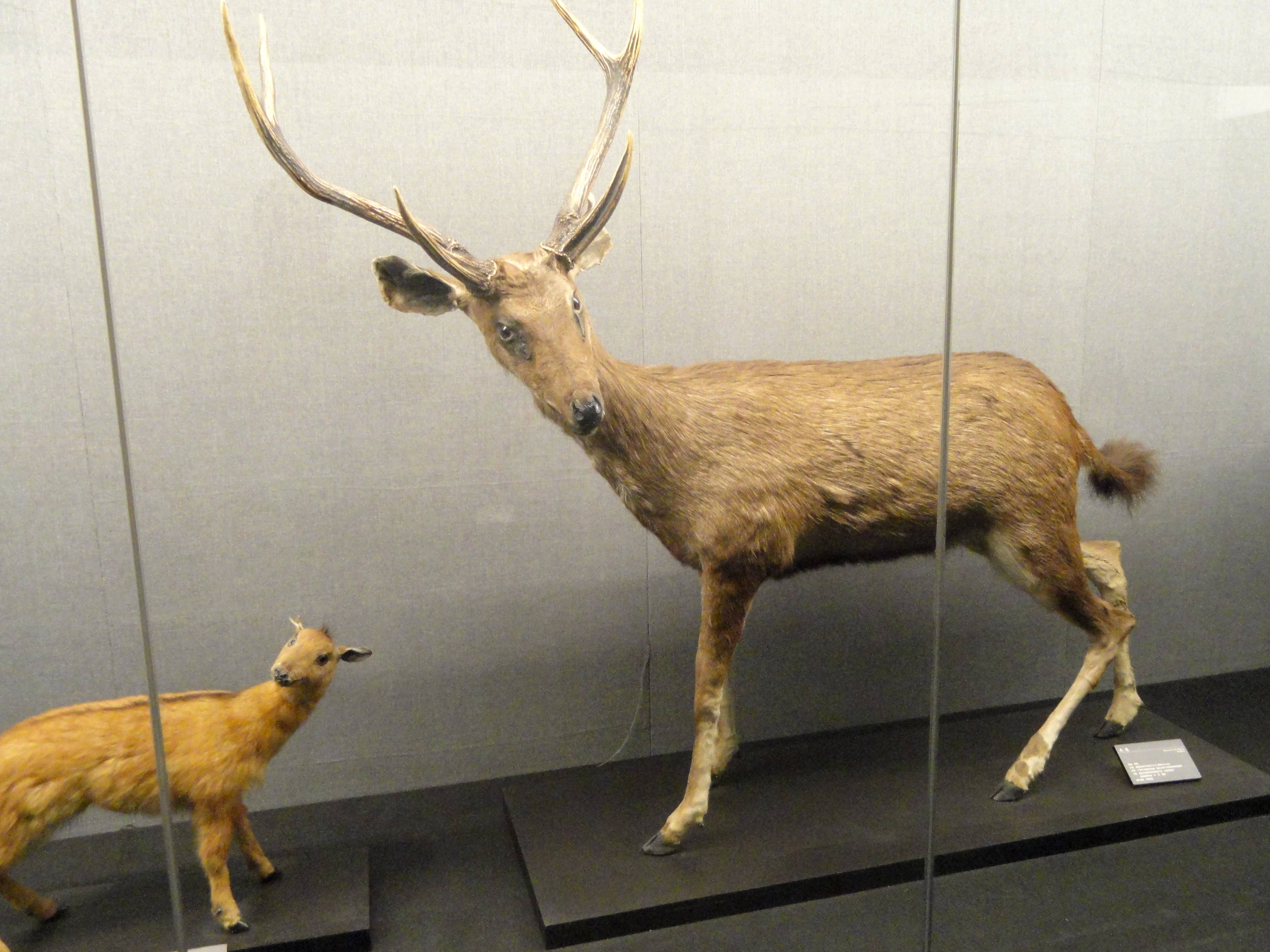 Taxidermy exhibit in the Kunming Natural History Museum of Zoology (昆明动物博物馆), Kunming, Yunnan, China.